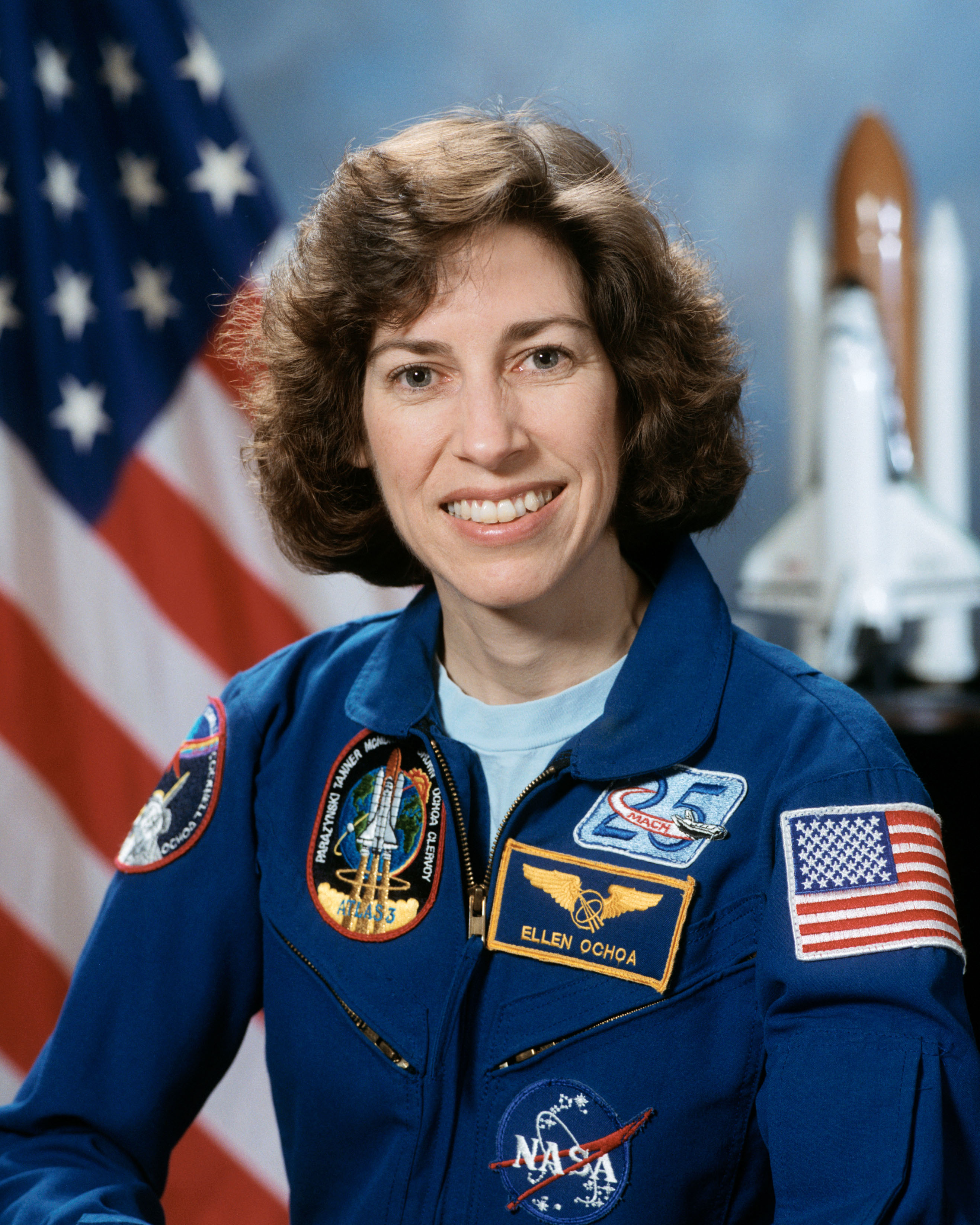 Portrait of NASA Astronaut Ellen Ochoa wearing a blue flight suit. Image #: S97-01586 Date: January 10, 1997